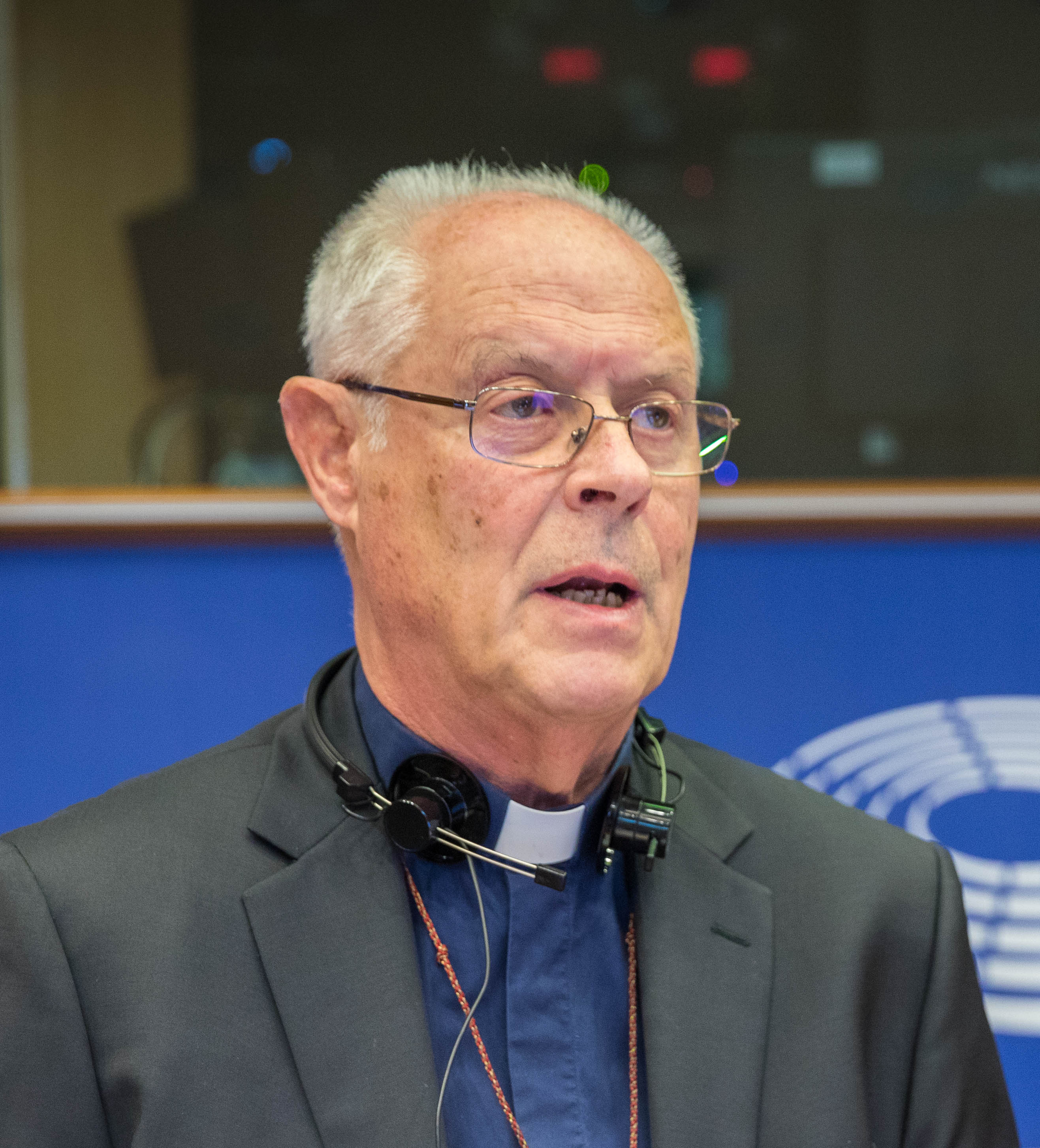 EPP Political Assembly, 4 February 2020